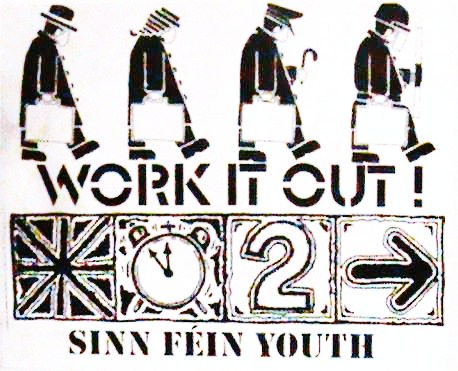 Sinn Féin Youth sticker: "Britain Time 2 Go"